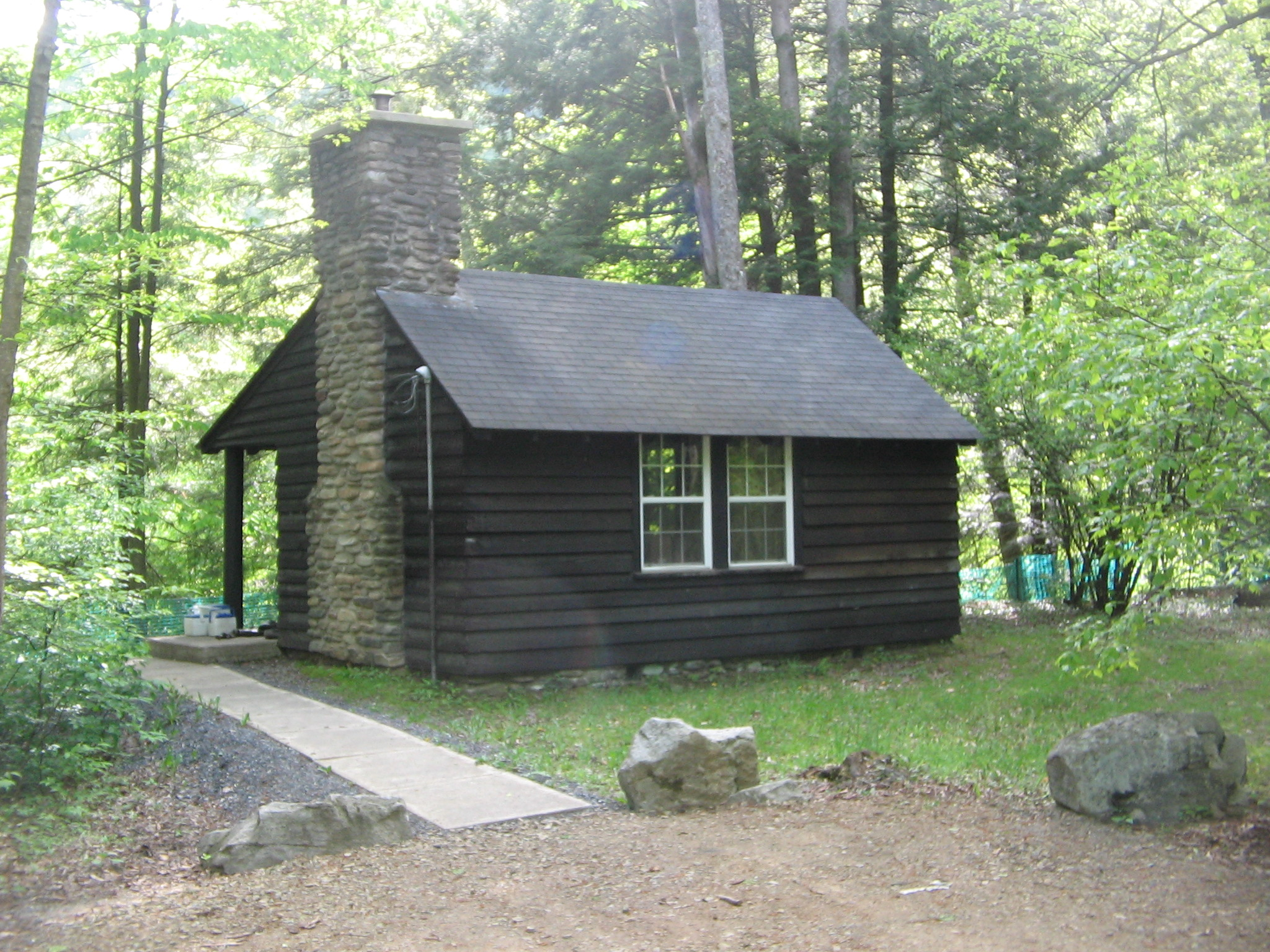 CCC-built Cabin 14 in Worlds End State Park, near Forksville, Sullivan County, Pennsylvania, USA. On the National Register of Historic Places